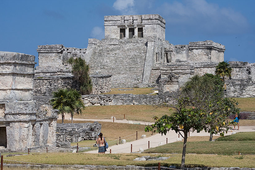 View towards the main temple in Tulum, Mexico.